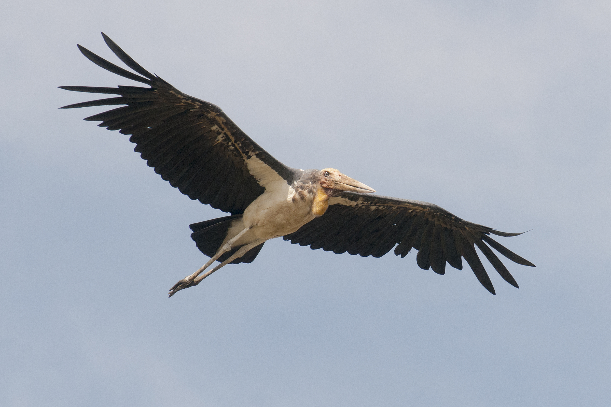 Lesser adjutant in Nagarhole National Park